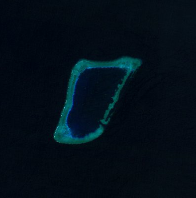 Half Moon Shoal is an atoll of Spratly Islands.